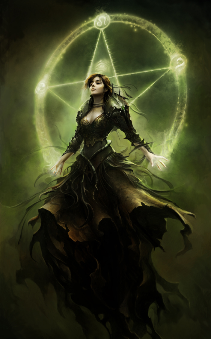 Image is of concept art from King Arthur II, a NeocoreGames video game.